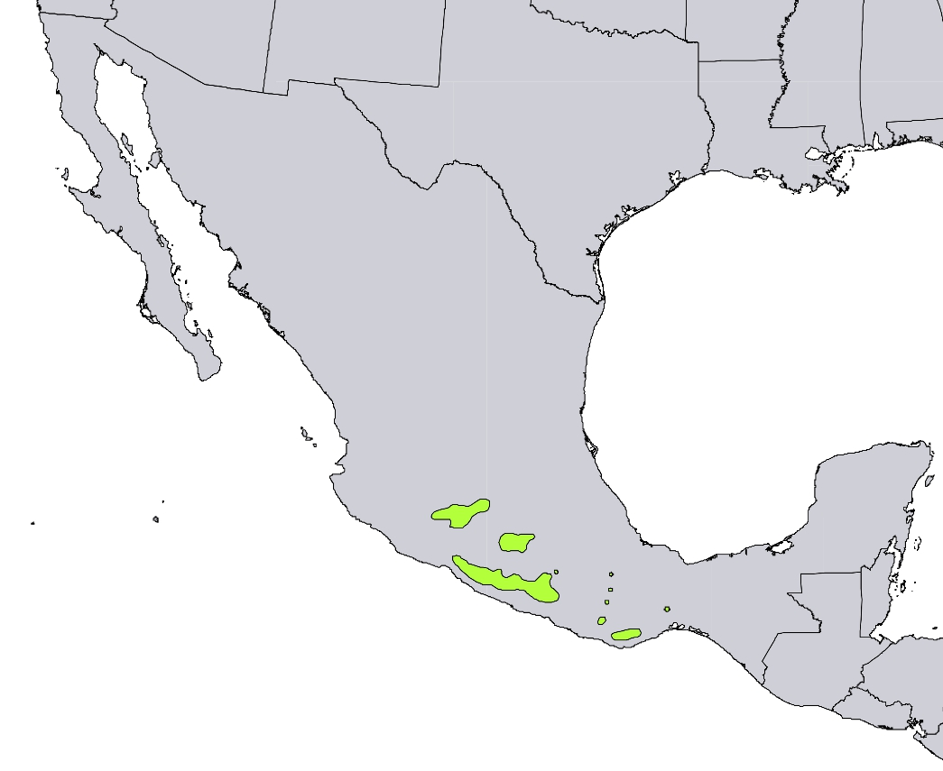 Range map of Pinus pringlei